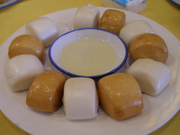 Mantou, a common Chinese dessert. The white buns are steamed, whereas the yellow ones are fried. In the center is a dish of sweetened condensed milk.